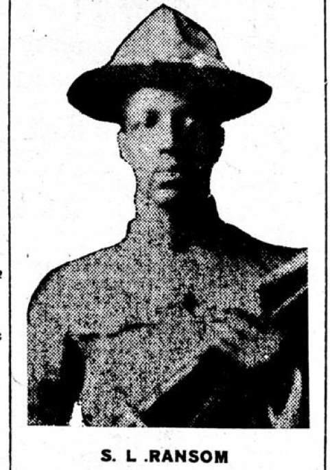 From the July 21, 1921 St. Paul Appeal, Page 3, Column 4 in a column about Samuel Ransom